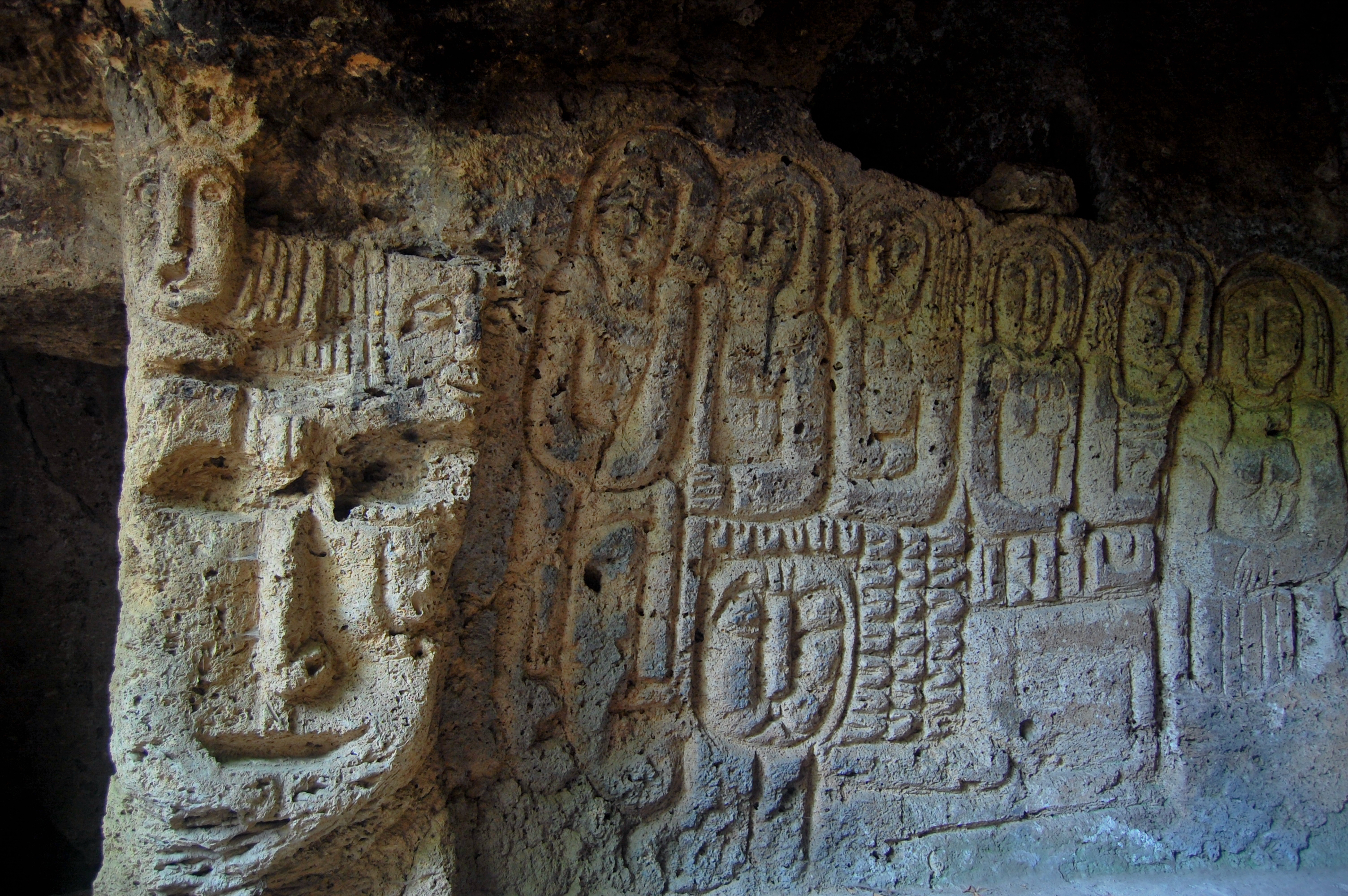 Petroglyphs in a residential cave, near Lastiver village, middle ages.